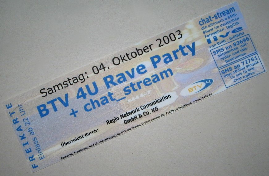 Free ticket for BTV4U rave party on October 4th 2003.